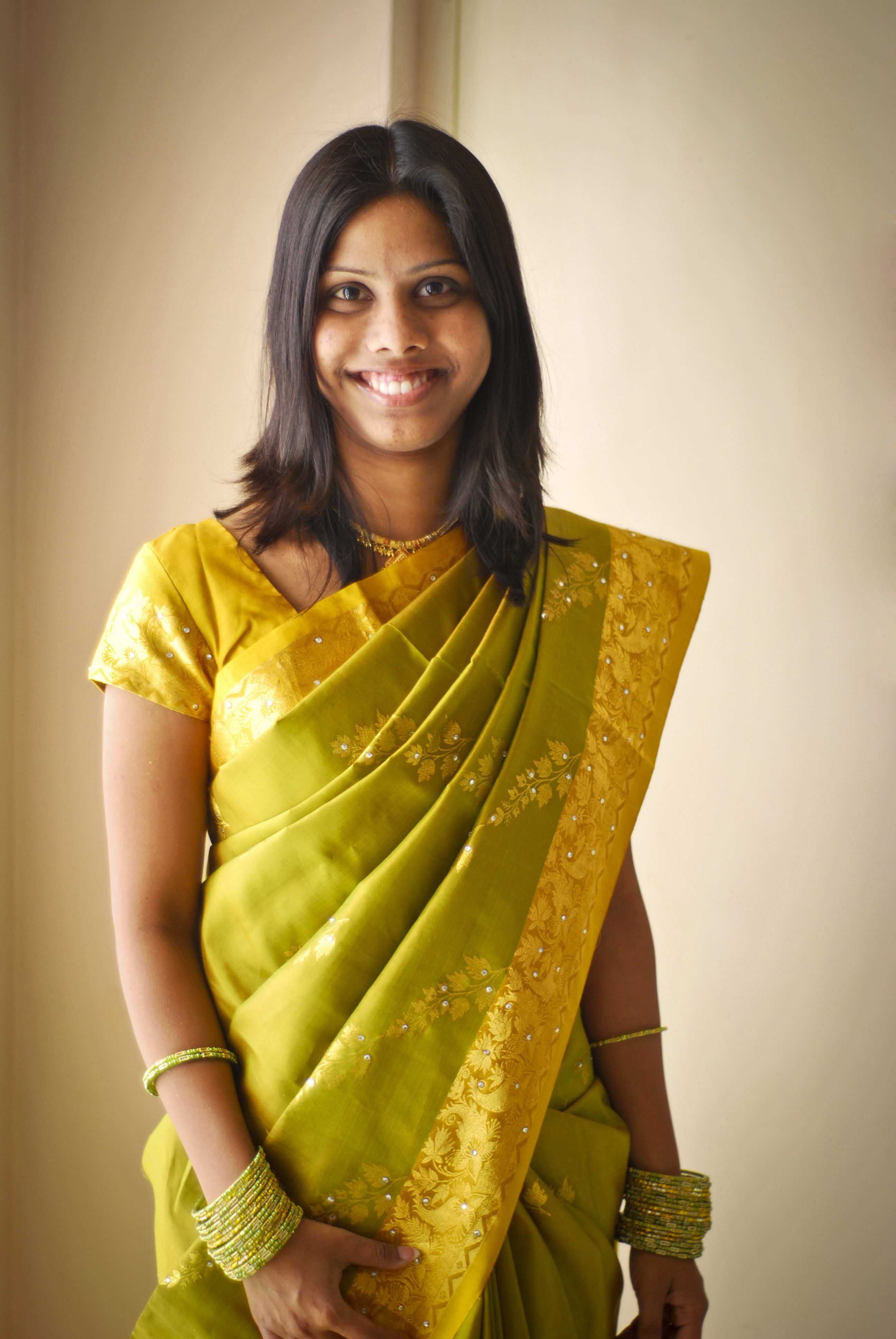 Since I didn't get the opportunity to shoot my own engagement, I wanted to shoot a few pictures of us in our engagement attire.